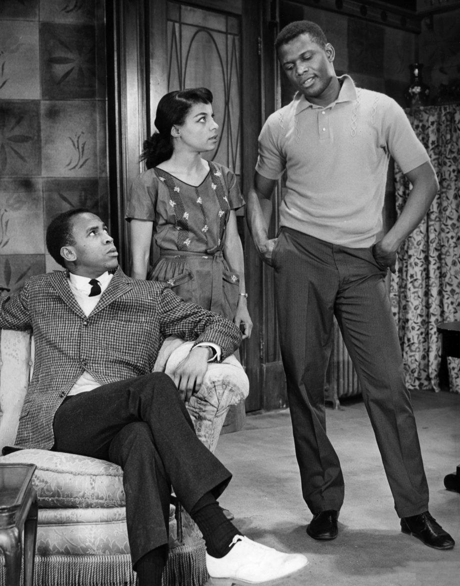 Photo of a scene from the play A Raisin in the Sun. From left-Louis Gossett (George Murchison), Ruby Dee (Ruth Younger) and Sidney Poitier (Walter Younger). Everyone shown in the photo reprised their roles in the 1961 film.